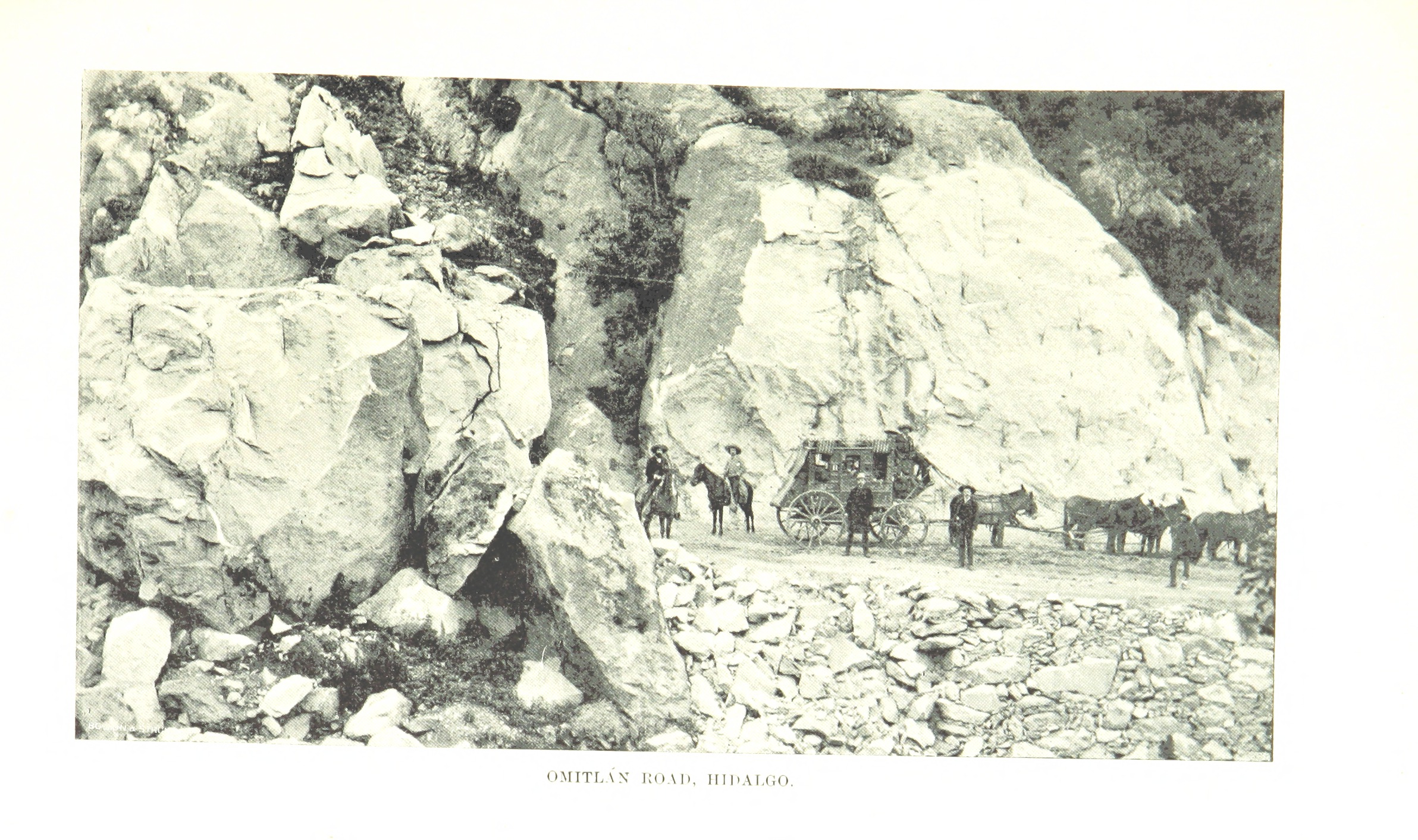 Image taken from: Title: "Resources and Development of Mexico. [With plates.]" Author: BANCROFT, Hubert Howe. Shelfmark: "British Library HMNTS 10480.dd.38." Page: 165 Place of Publishing: San Francisco Date of Publishing: 1893 Publisher: Bancroft Co. Issuance: monographic Identifier: 000188899 Explore: Find this item in the British Library catalogue, 'Explore'. Download the PDF for this book (volume: 0) Image found on book scan 165 (NB not necessarily a page number) Download the OCR-derived text for this volume: (plain text) or (json) Click here to see all the illustrations in this book and click here to browse other illustrations published in books in the same year. Order a higher quality version from here.